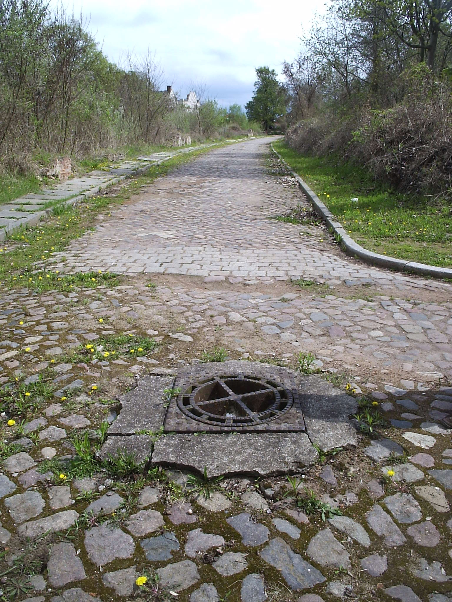 Kostrzyn nad Odrą, Poland